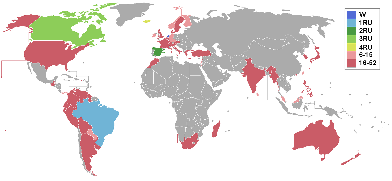 ms international 1961 results map